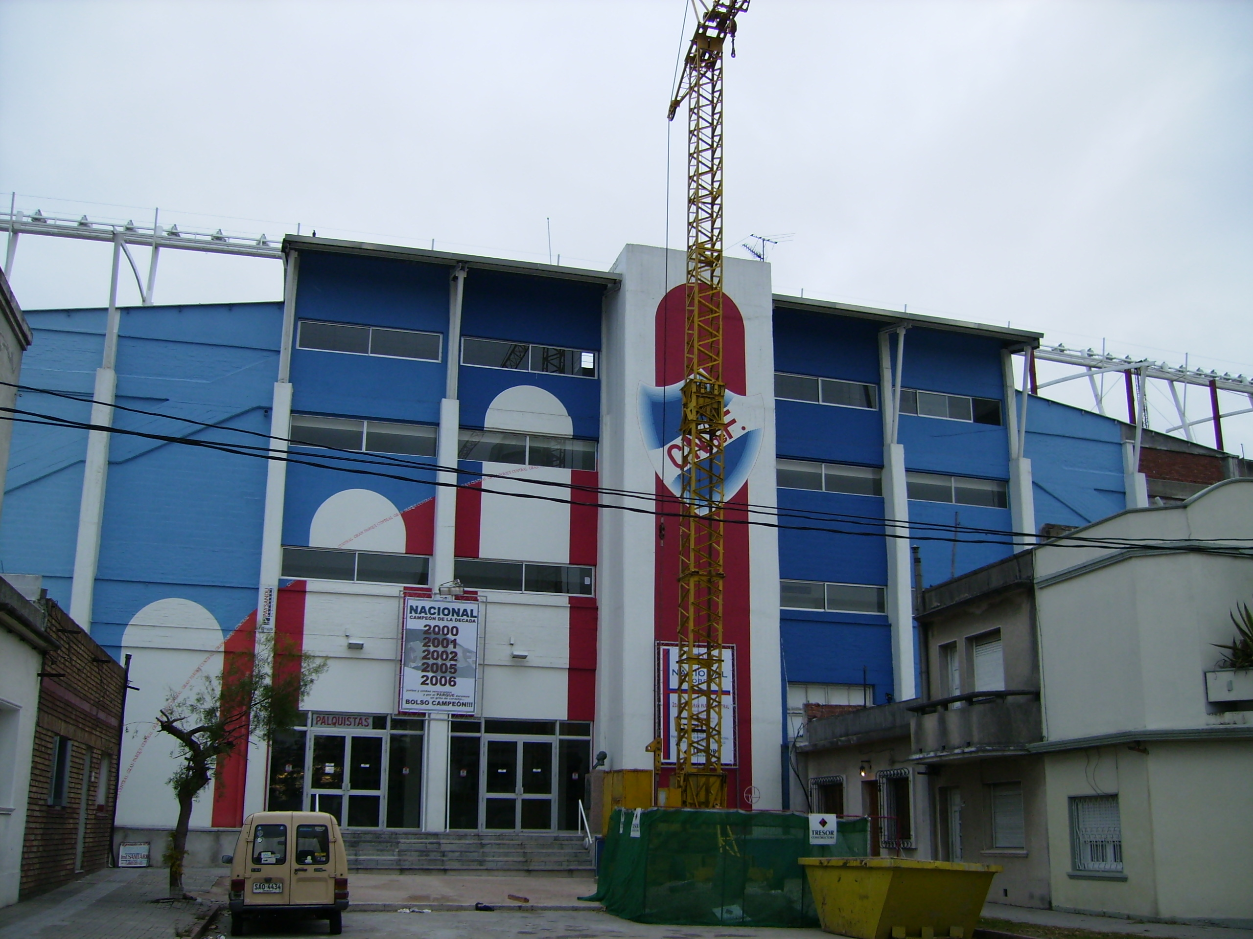 Gran Parque Central, football stadium of Nacional, Montevideo, Uruguay. Taken from outside